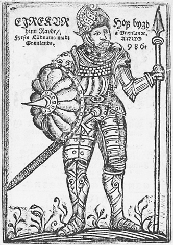 Eric the Red (Eiríkur rauði). Woodcut frontispiece from the 1688 Icelandic publication of Arngrímur Jónsson's Gronlandia (Greenland). Fiske Icelandic Collection.